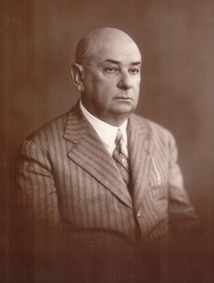 Picture of Antonio Eugenio Richard Junior, Brazilian engineer